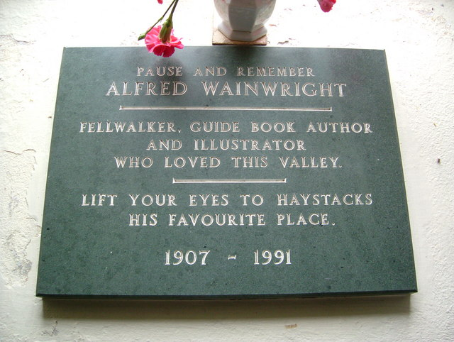 AW's Memorial Window Tablet in St James' Church, Buttermere.